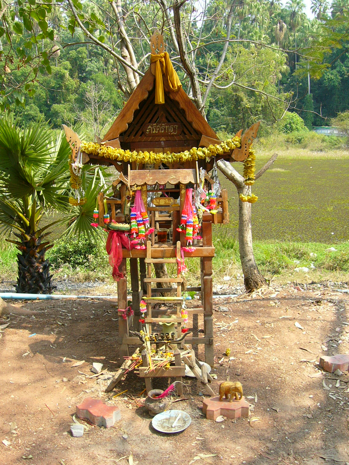 Golden Spirit house at Wat Kham Chanot, Thailand.